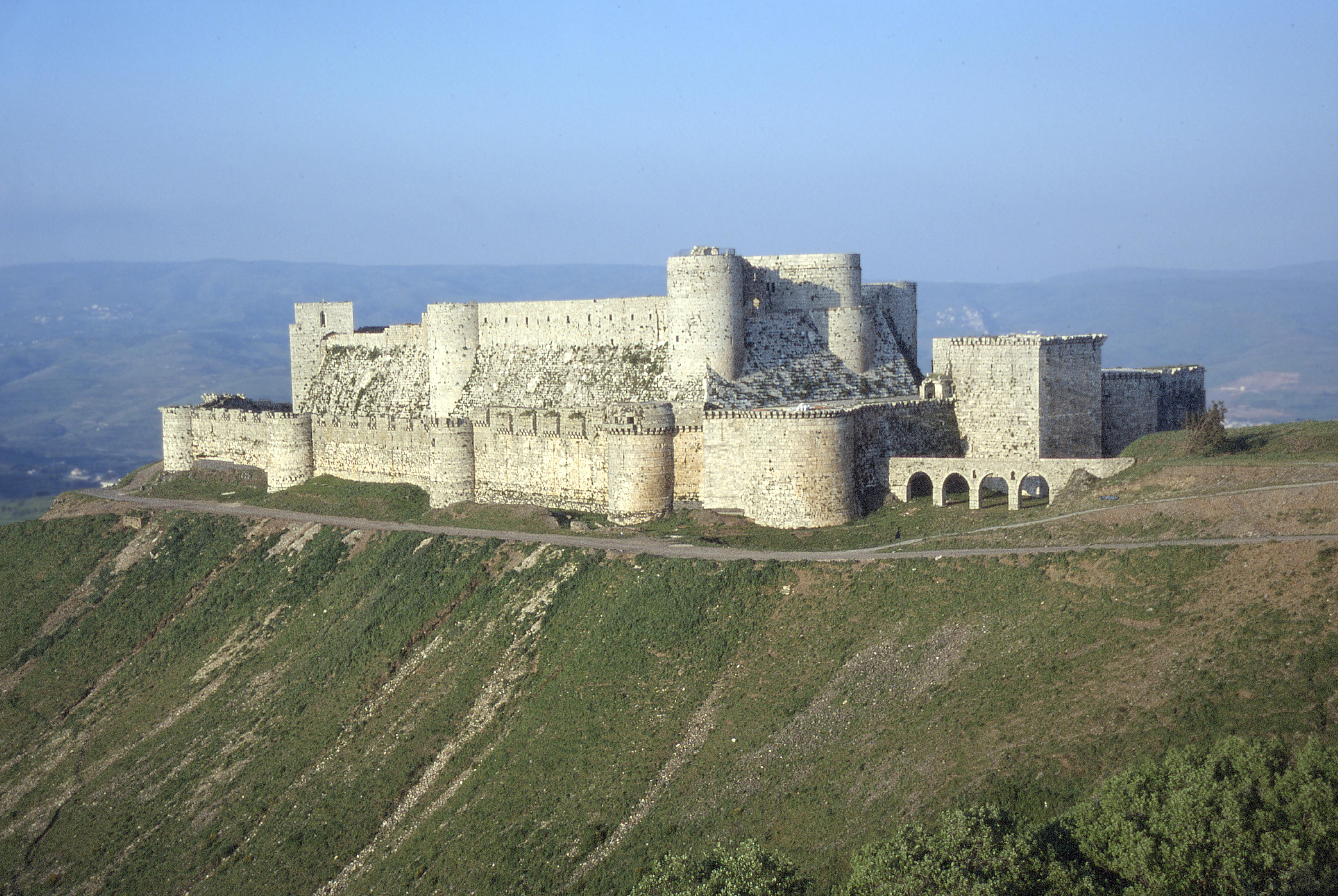 General view, Krak des Chevaliers in 2002